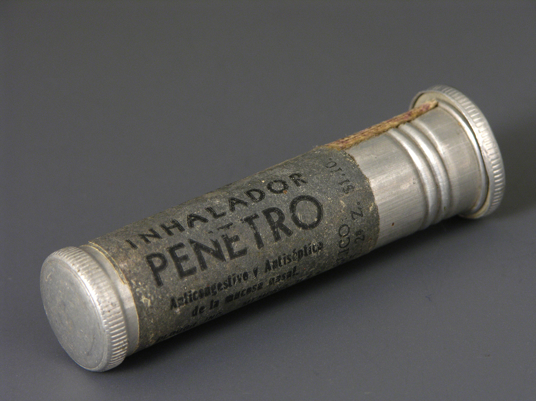 Penetro inhaler metal container mid 20th century